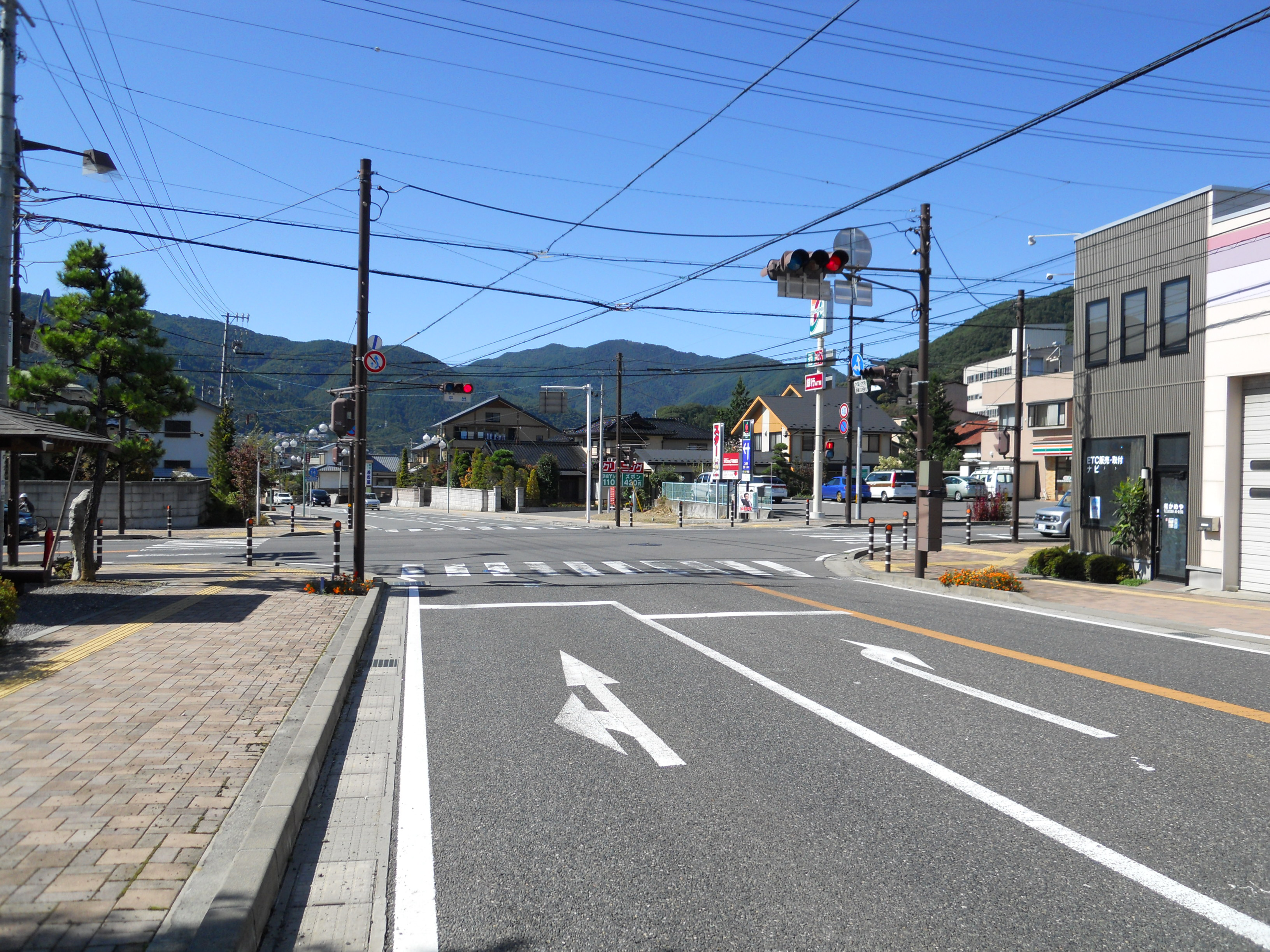 The Hiraide Intersection in Tatsuno Town, Nagano Prefecture, Japan